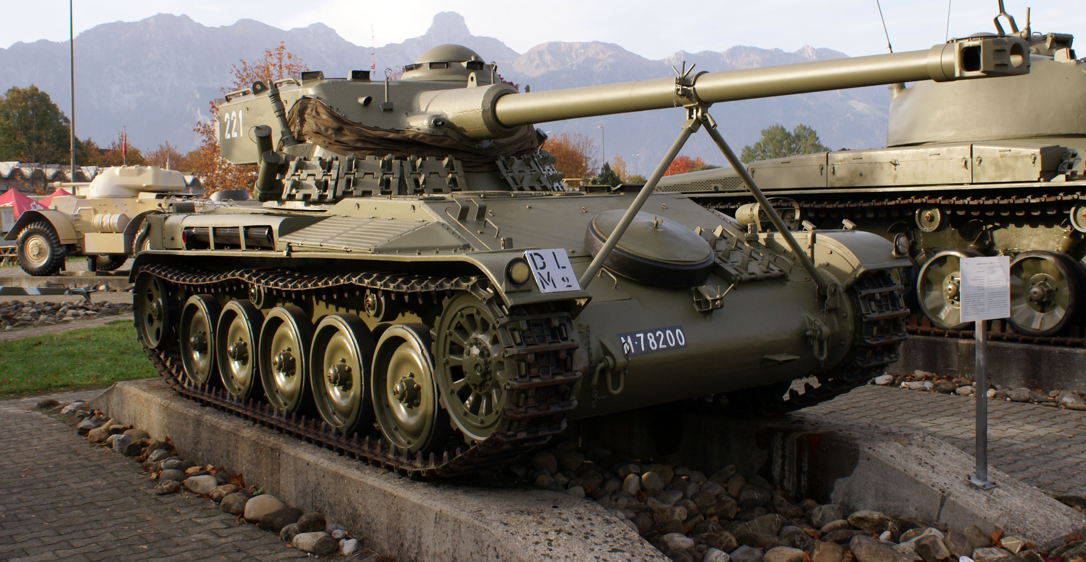 Swiss Army. Light tank 51 "AMX 13". French import 1951, in use until 1980. Tank Museum Thun.